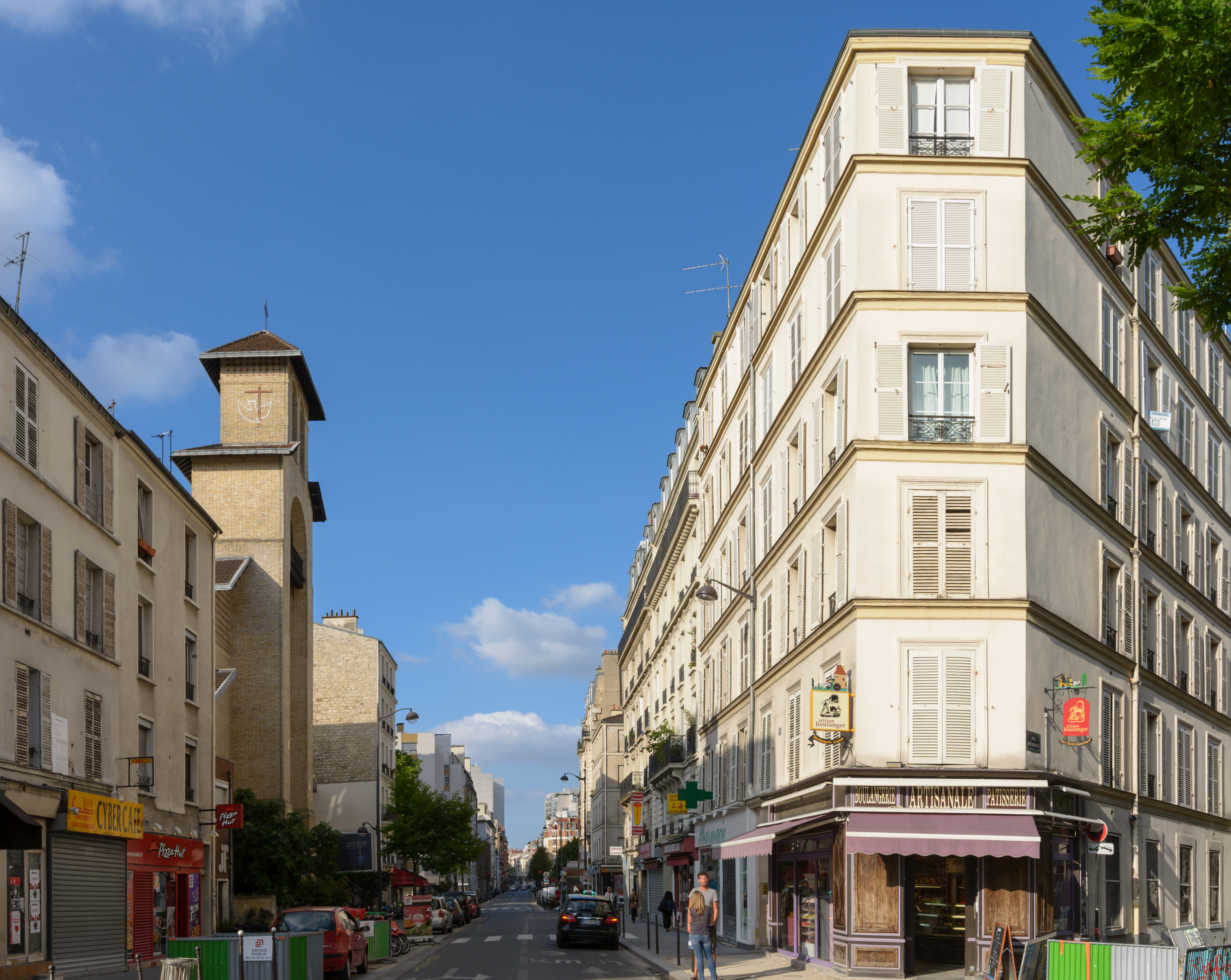 Rue Raymond-Losserand, at the junction with rue des Arbustes, in the 14th arrondissement of Paris, France.